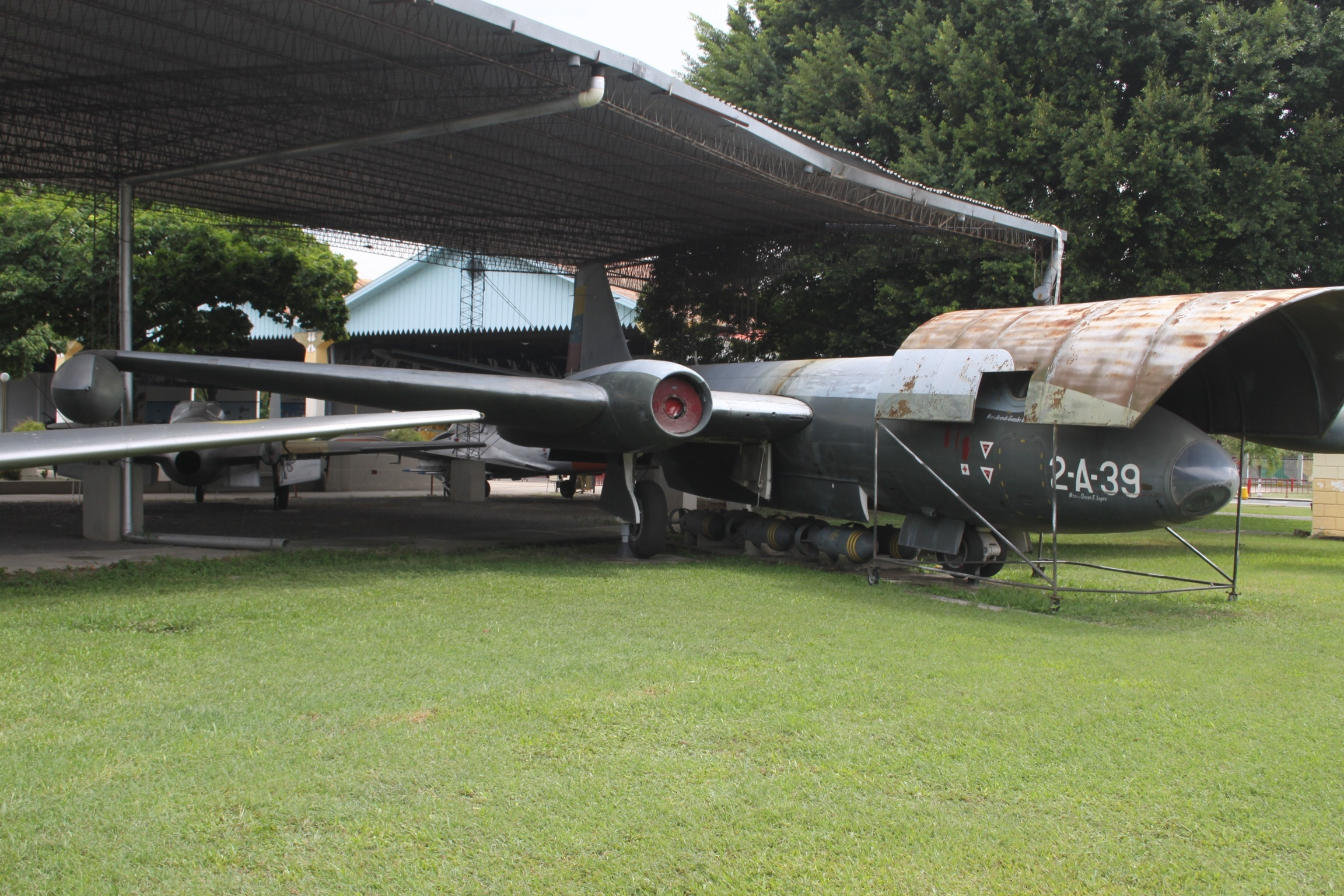 At Museo Aeronáutico de Maracay